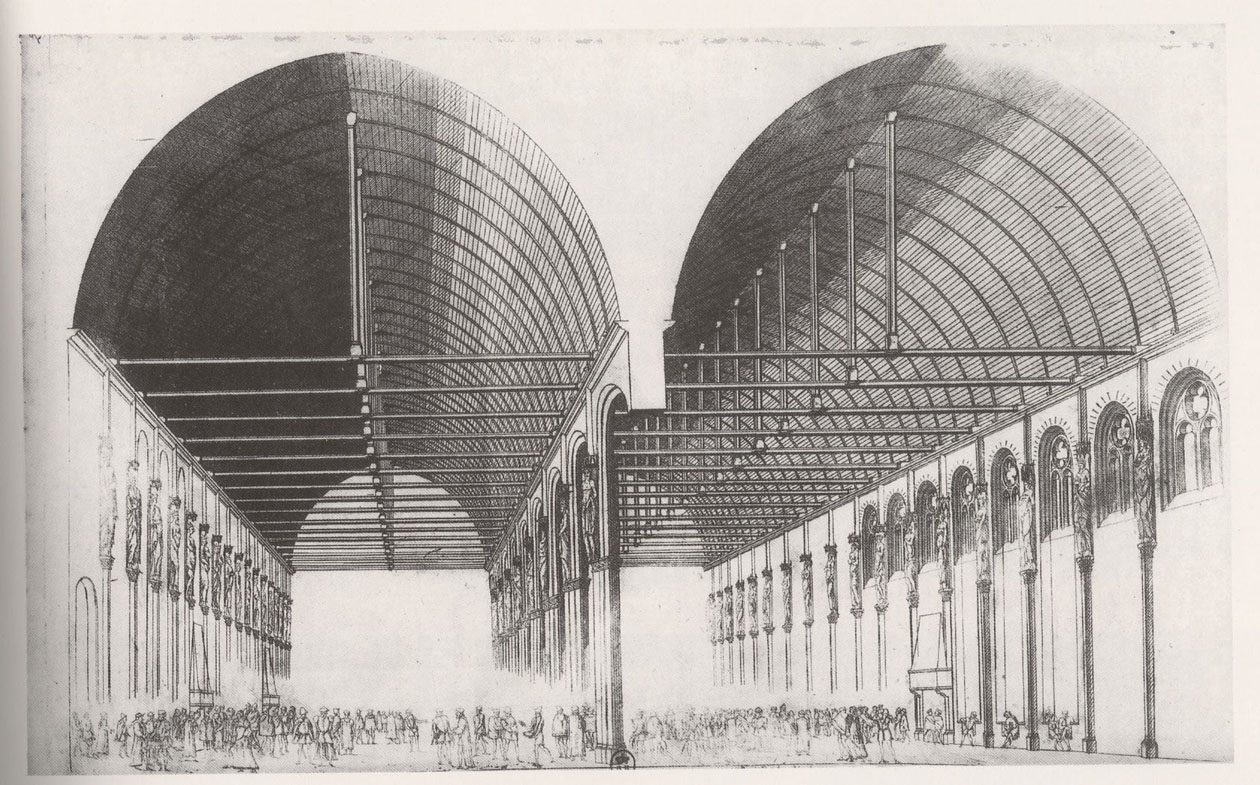 Interior of the Great Hall (built directly above the vaulted Gens d'Armes' hall) of the old royal palace of Paris, France (western part of the Cité island). Engraving by Jacques Ier Androuet du Cerceau, circa 1580 (that hall was later rebuilt as the Salle des Pas-Perdus of the Palais de Justice).